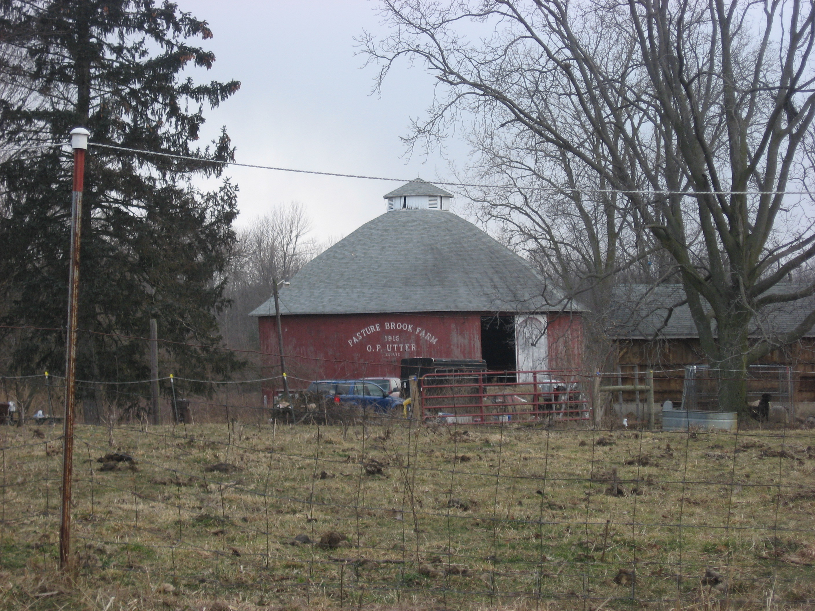 Roadside view of the Utter-Gerig Round Barn, located at N825E south of E100N northwest of Akron in Henry Township, Fulton County, Indiana, United States. Built in 1915, it is listed on the National Register of Historic Places.